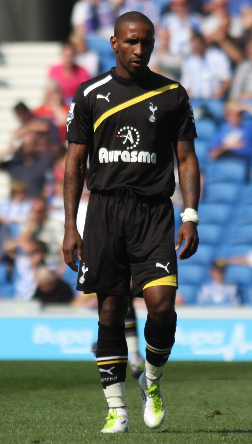 Jermaine Defoe of Tottenham Hotspur